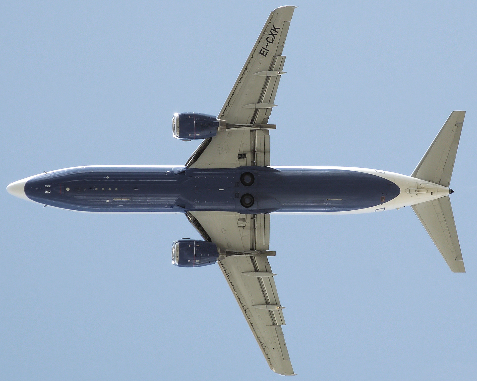 Transaero Boeing 737-400 (with Irish registration EI-CXK) takes off from London Heathrow Airport, England. The undercarriage wheels are exposed in flight, there are no covers.